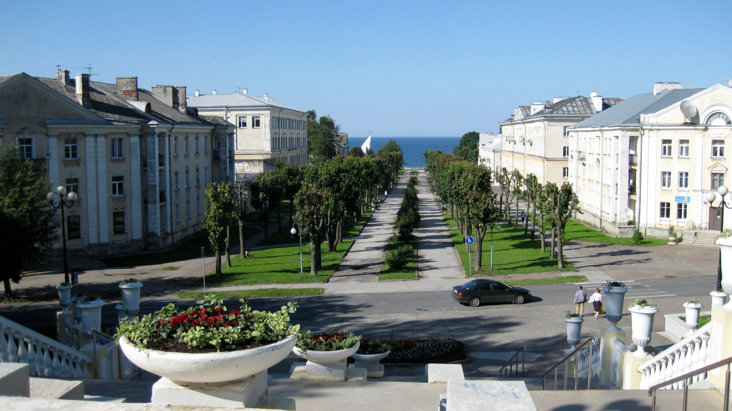 Sillamäe